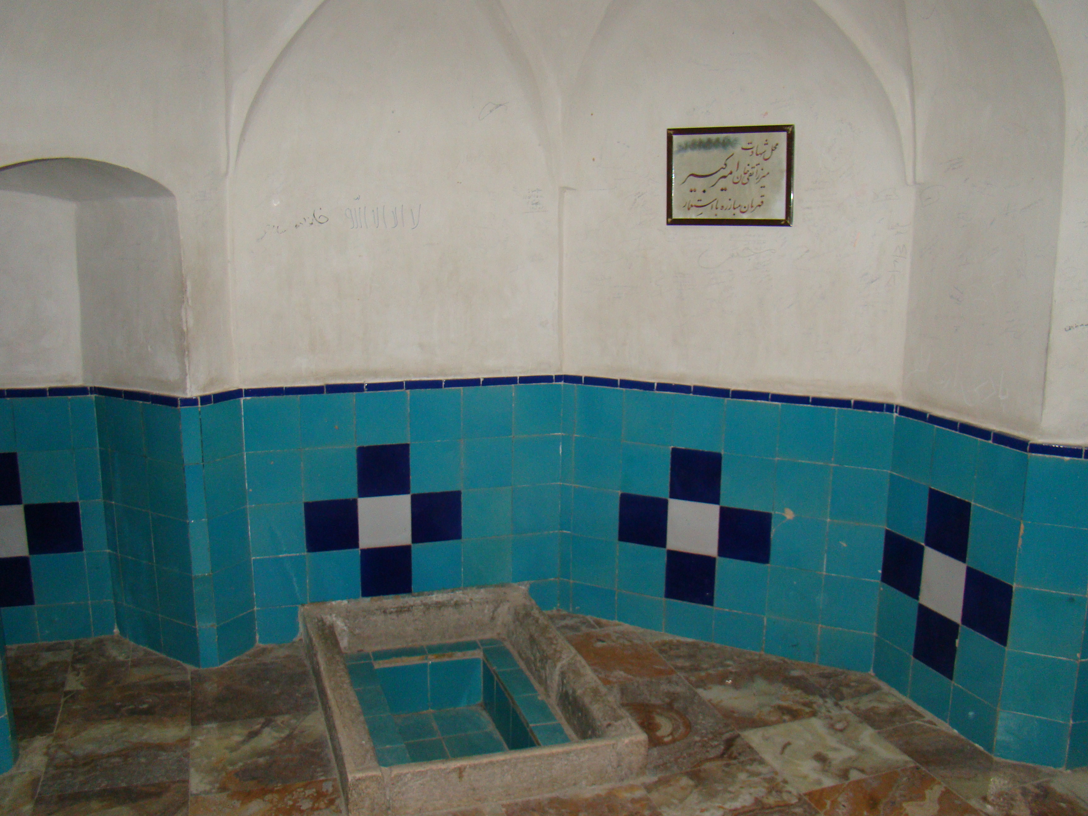 amirkabir murder site